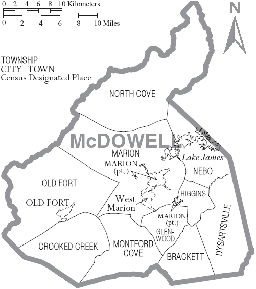 Map of McDowell County, North Carolina, United States with township and municipal boundaries